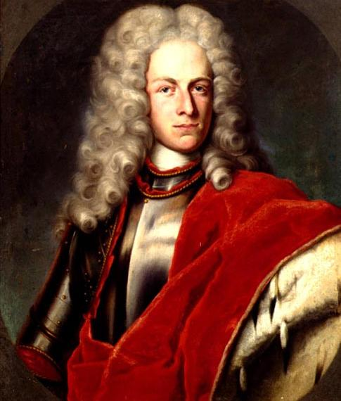 Portrait of Maximilian Karl Albert, Prince of Löwenstein-Wertheim-Rochefort (1656-1718)